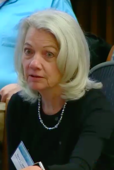 Terry Jernigan at the January 2018 NIH Division of Program Coordination, Planning, and Strategic Initiatives Council of Councils